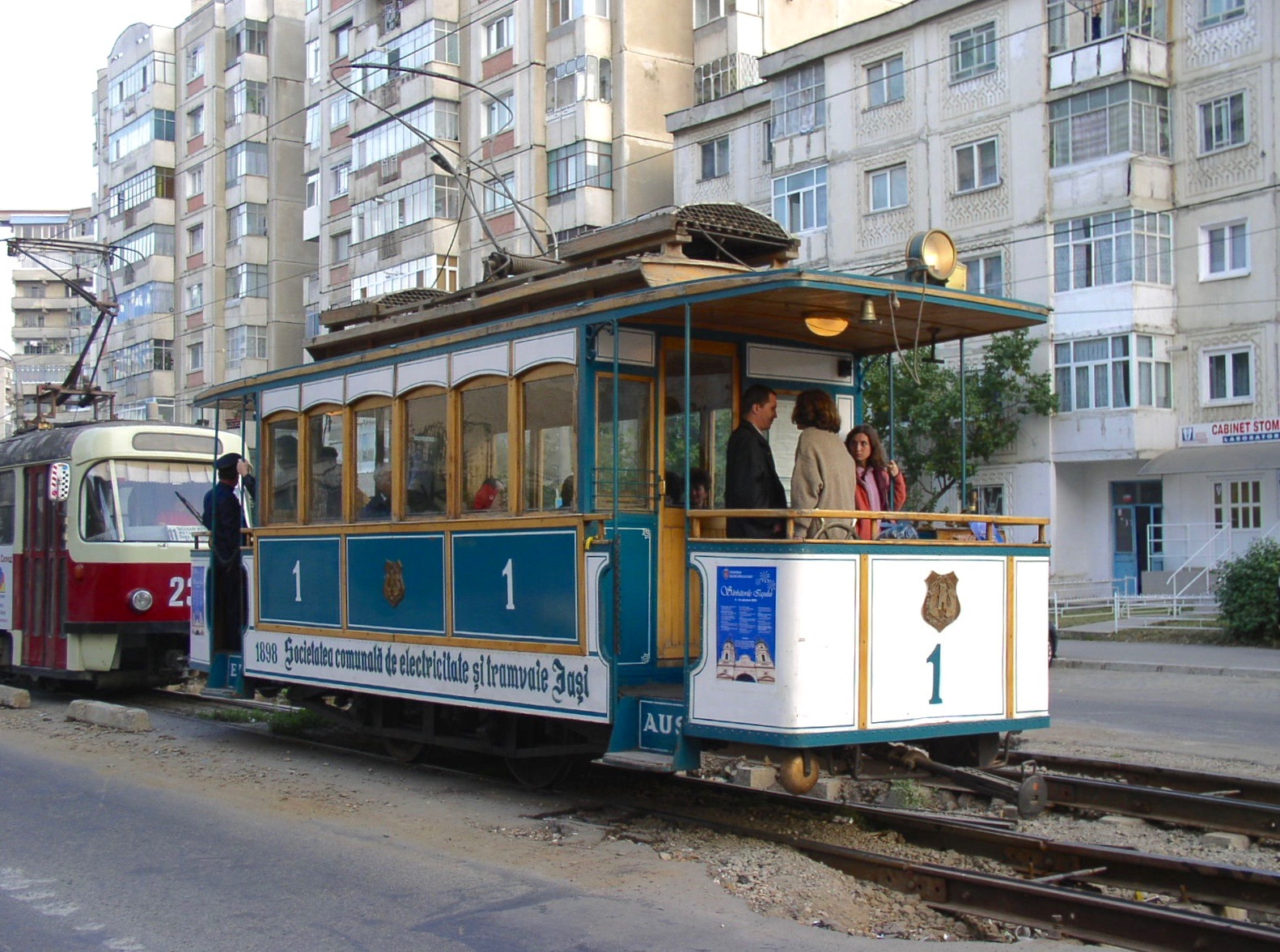 Iasi two-axle tram 1 in 2005. It is an AEG-type replica built in 1998 for the tram system's centennial.